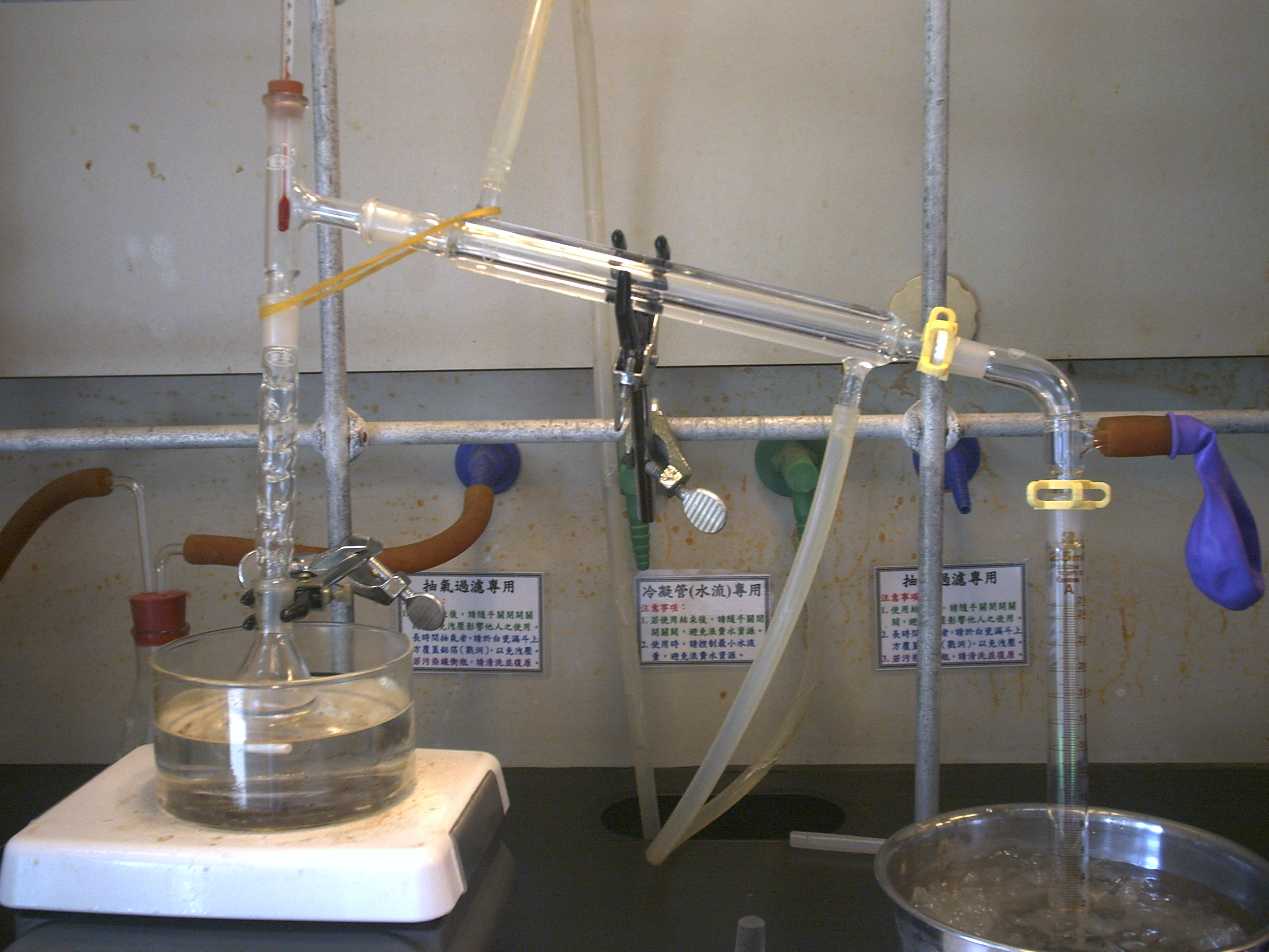 Fractional distillation apparatus